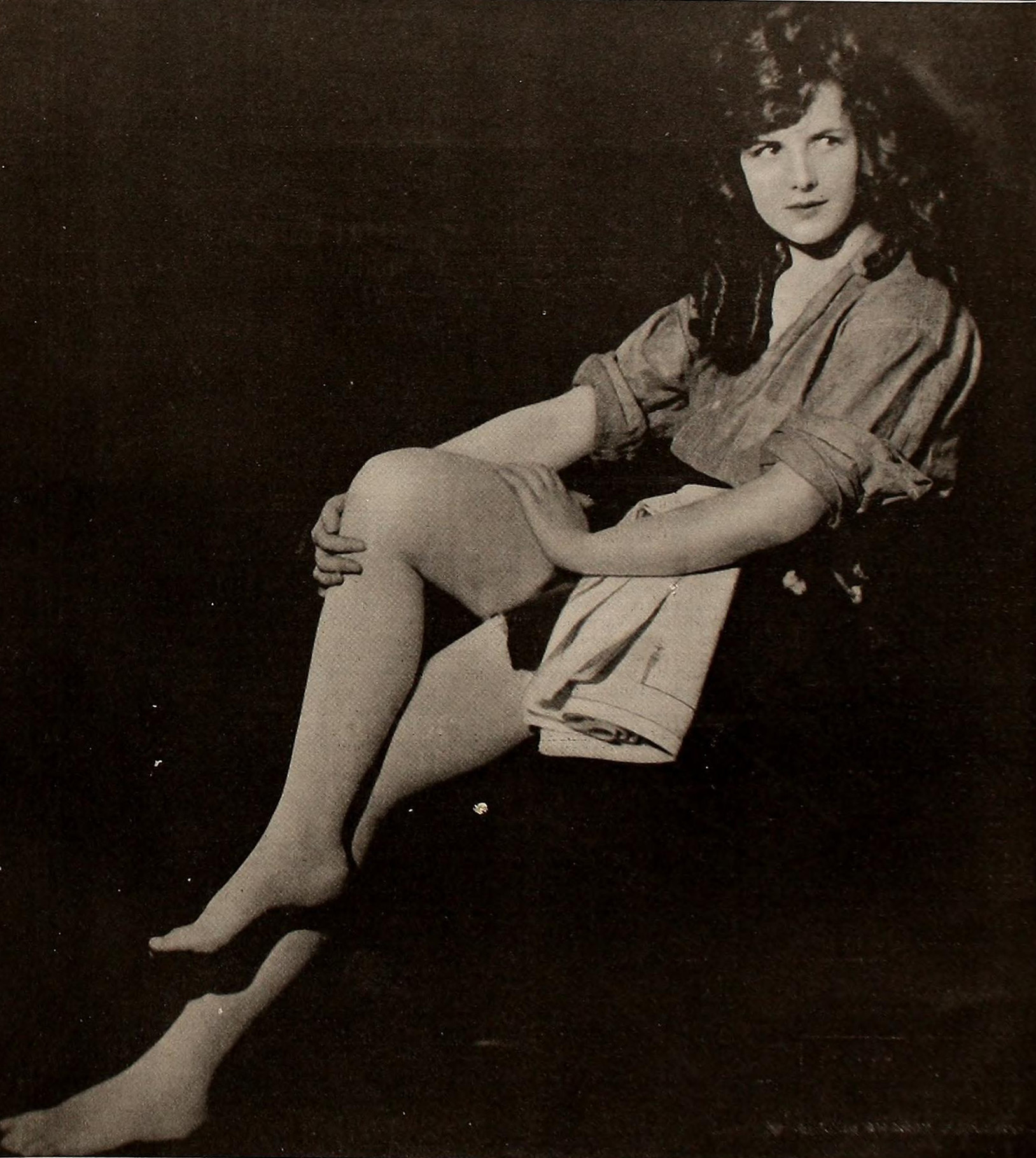 American actress Marjorie Daw, on page 3323 of the April 10, 1920 Motion Picture News.